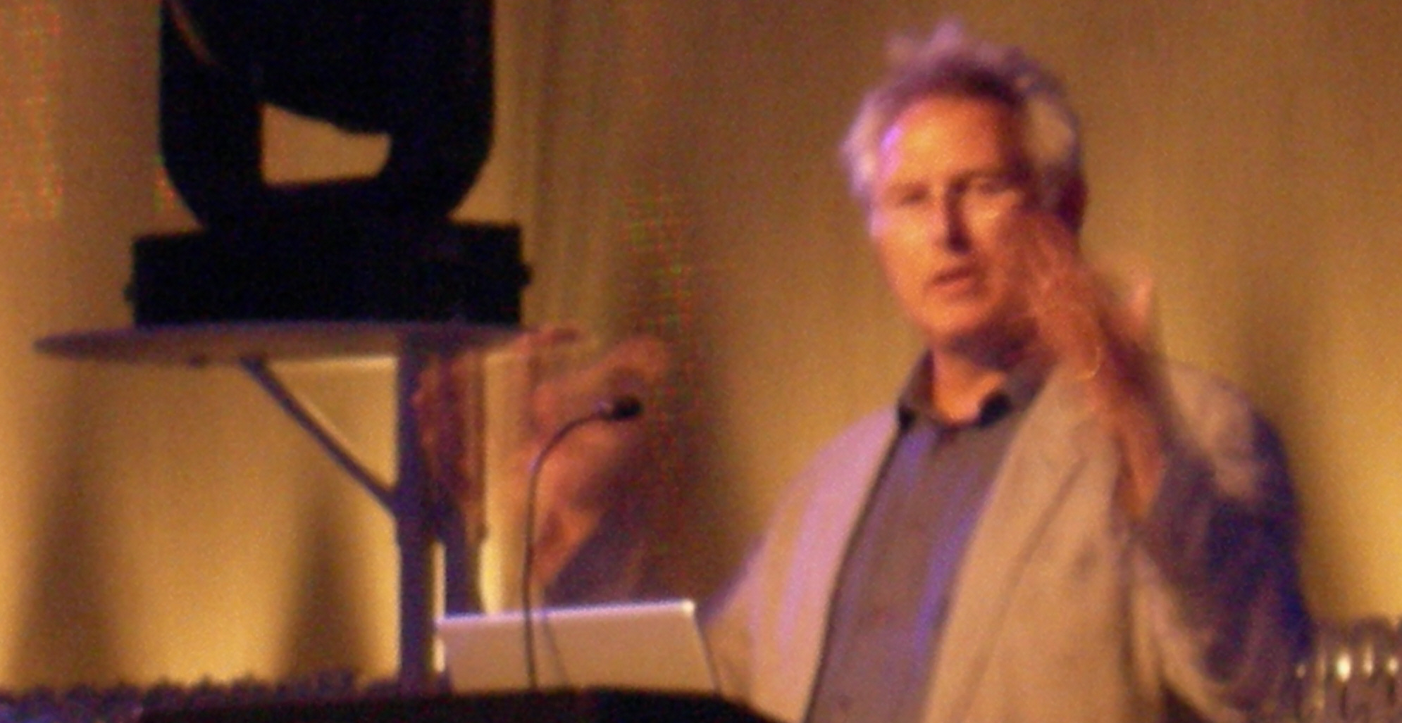 Artist Eric Fischl, speaking at Sky Church, Experience Music Project, Seattle, Washington.